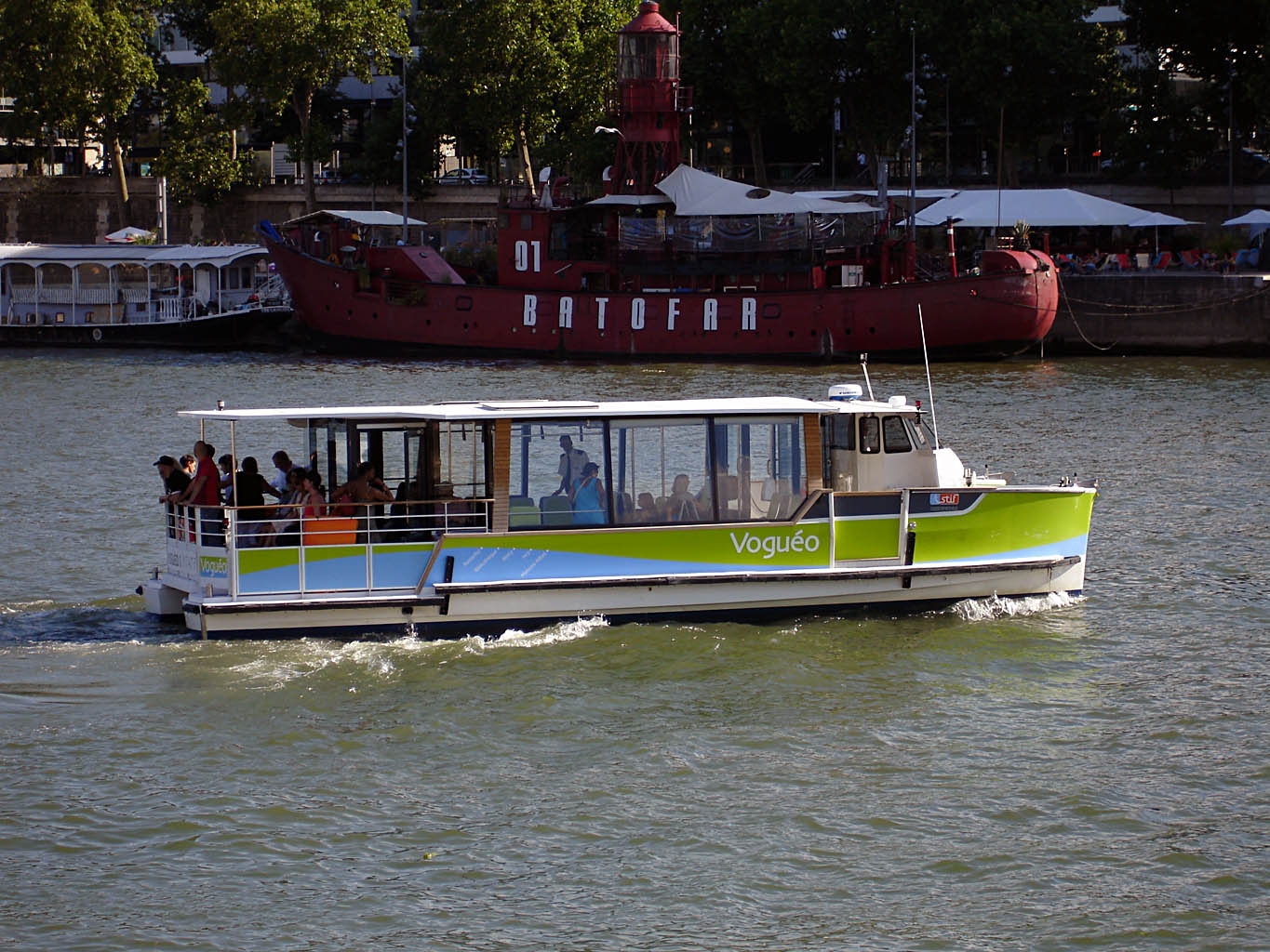 The river shuttle Voguéo, on the river Seine in Paris, France